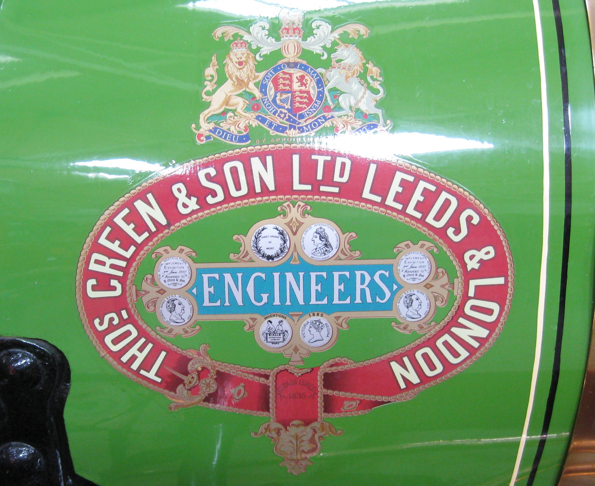 Coat of arms of Thomas Green & Son, of Leeds and London. On the barrel of the steam roller "Hilda" 1921. Now in the Bury Transport Museum